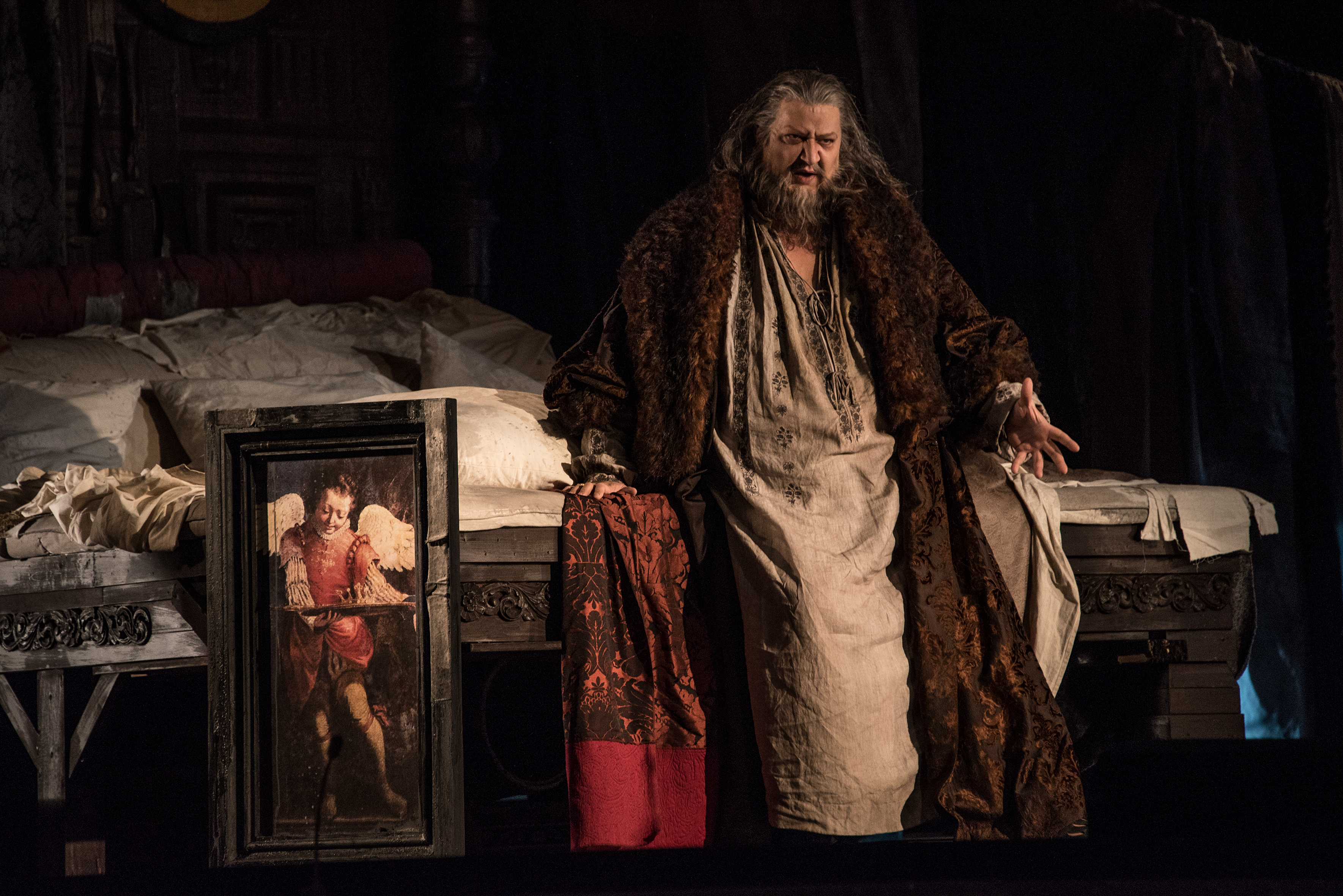 Ambrogio Maestri as Falstaff, Vienna State Opera, 2016